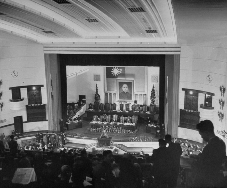 The copyright of the picture has expired! In 1946